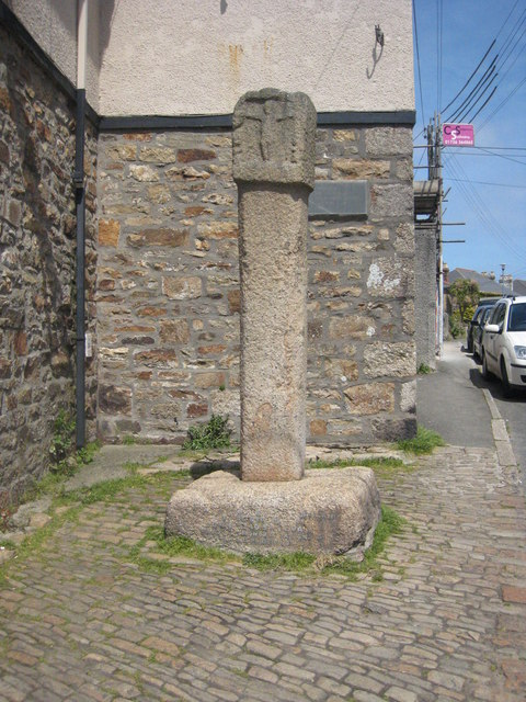 Ancient cross in St Erth Situated next to the post office. The slate plaque on the wall reads 'This site is dedicated to the parishioners of St Erth and entrusted to their care by John Lord St Levan Lord of the Manor of Treloweth in this parish 1891'.